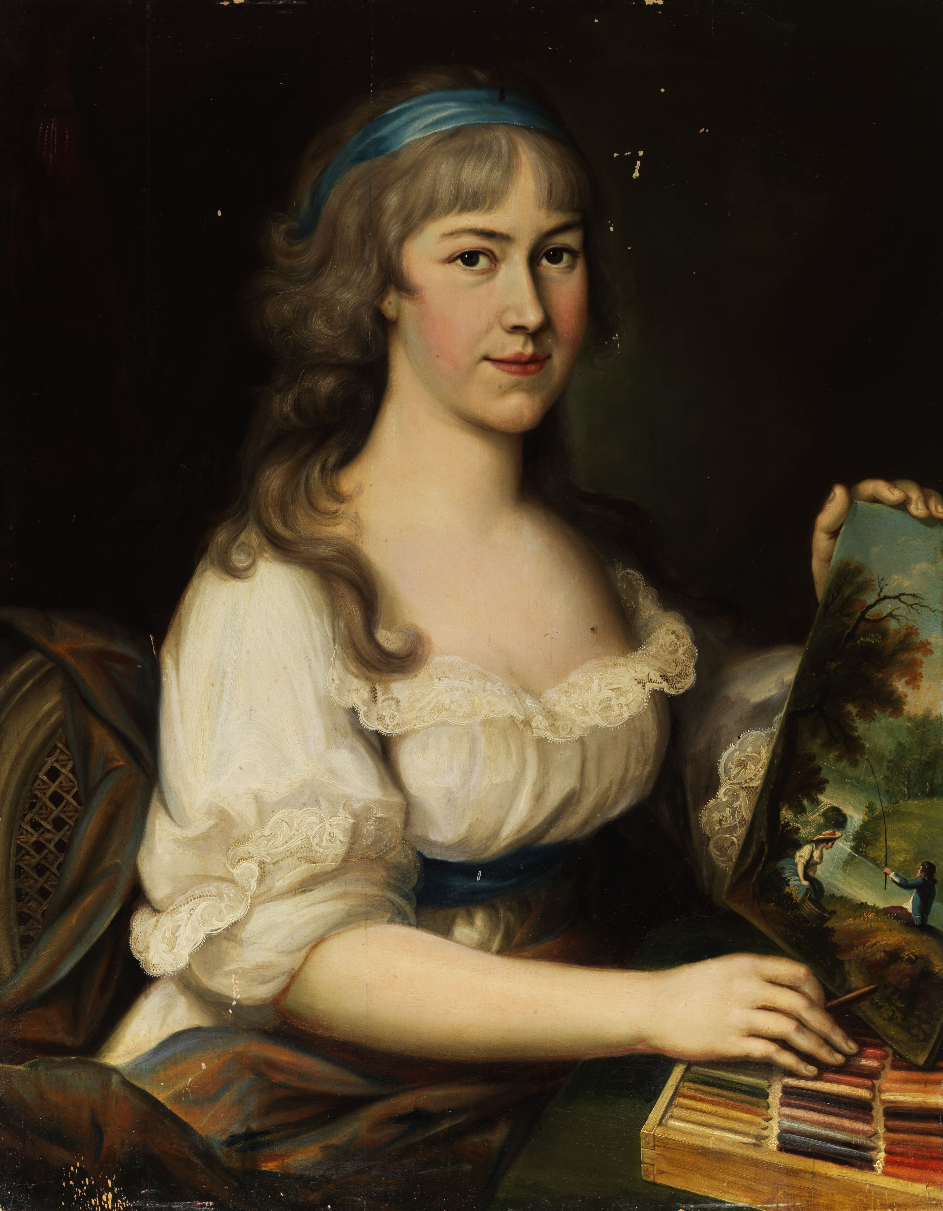 Portrait of a young female painter